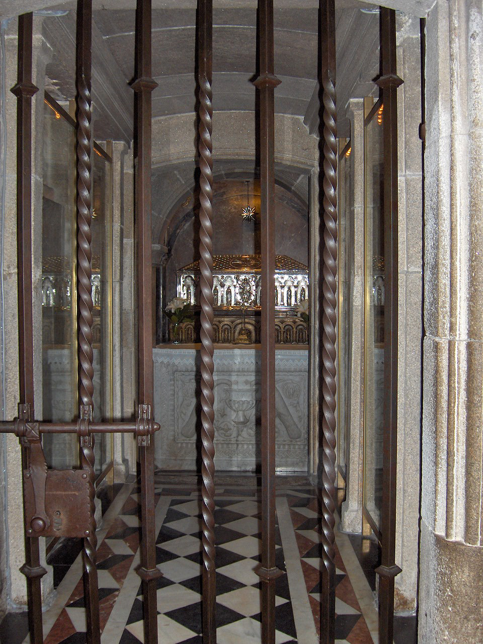 Crypt with relics of Saint James; the cathedral of Santiago de Compostela, Spain